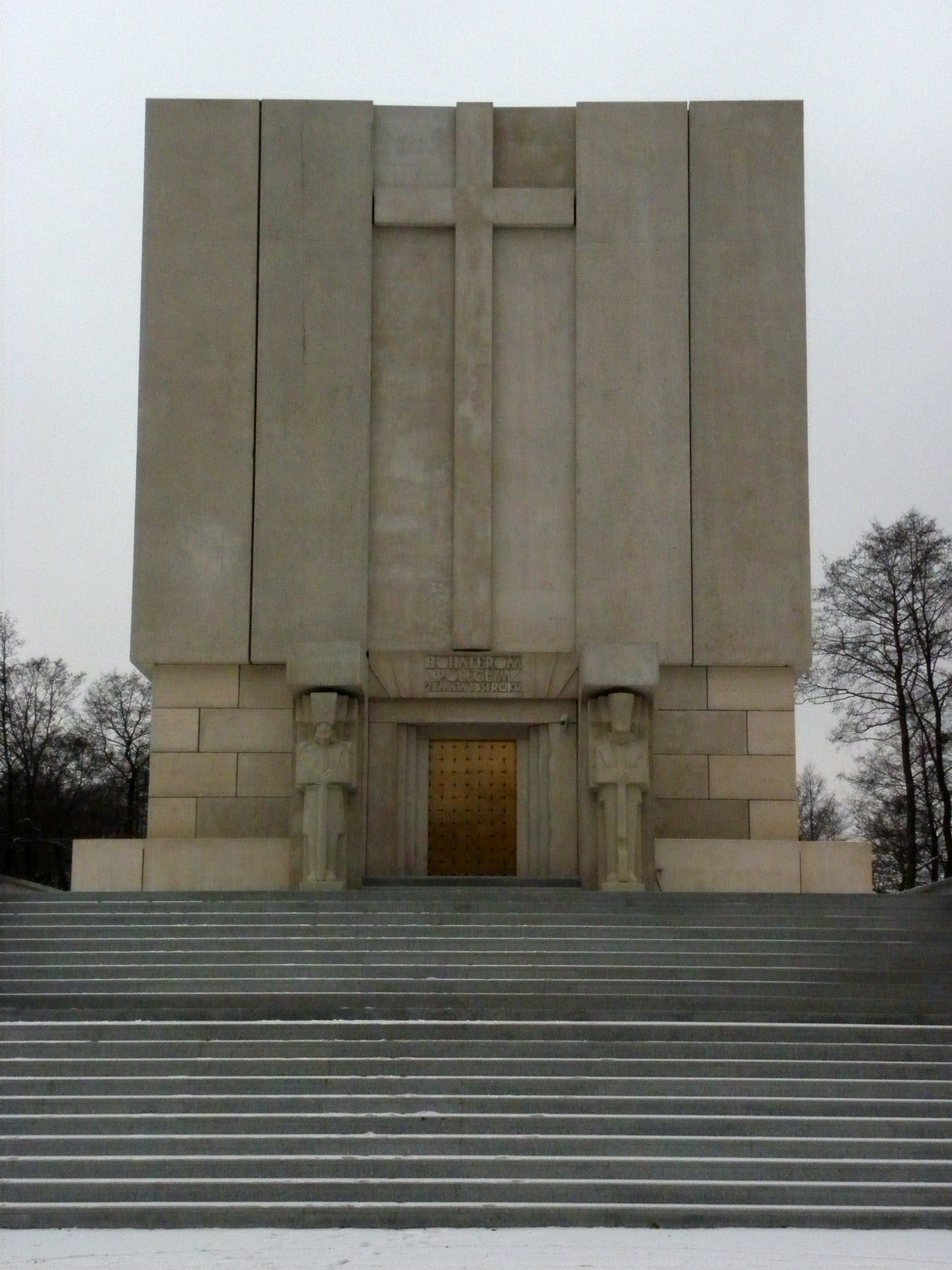 Forty Bema in Ostrołęka, Poland after renovation.